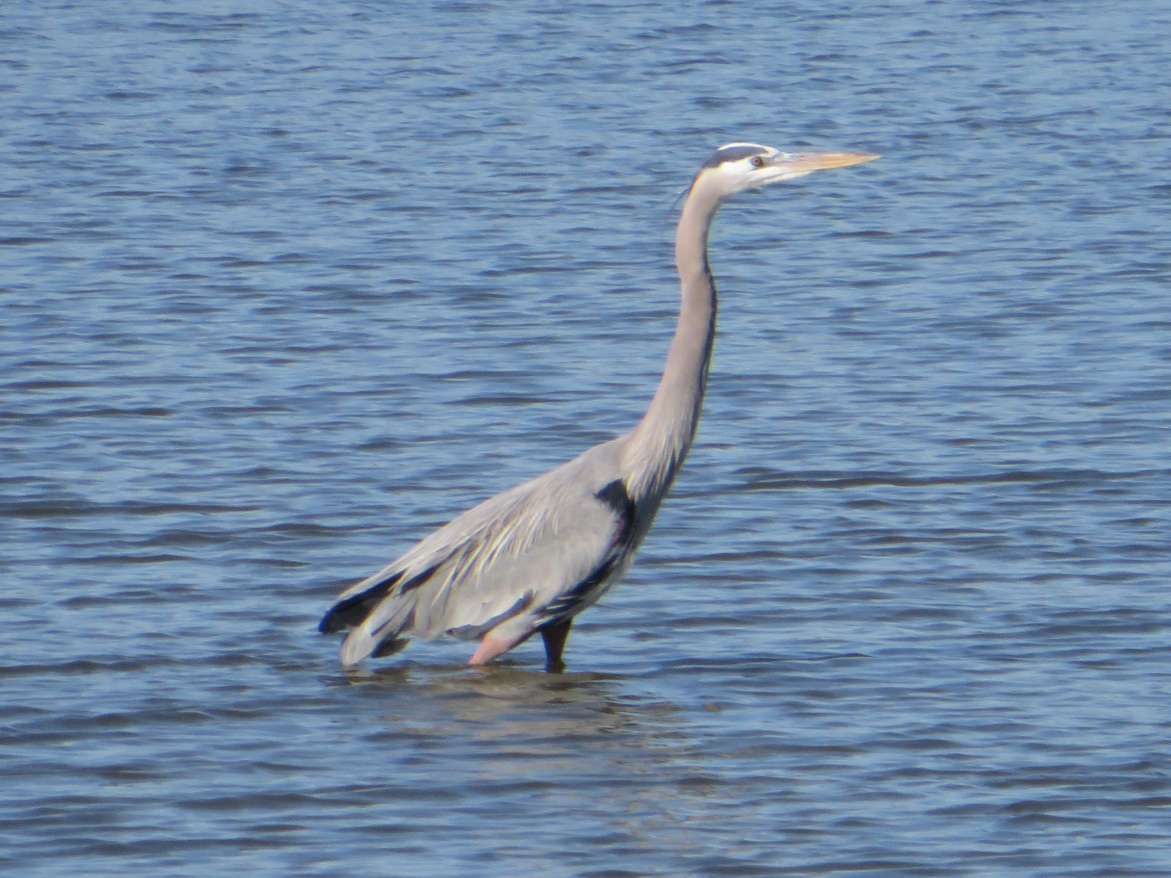 A Grey Heron on the water in Seabrook, Texas.